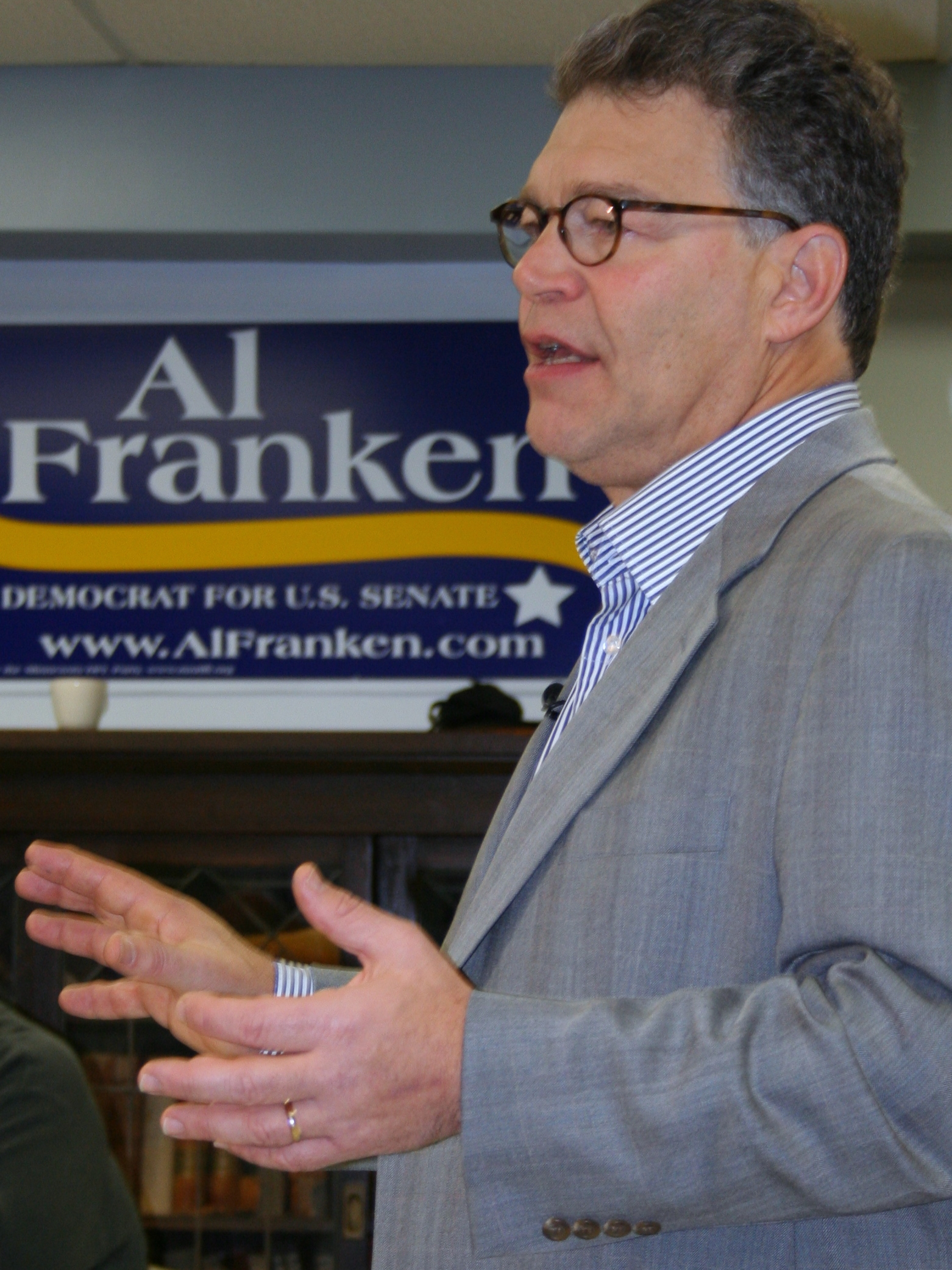 2008 United States Senate candidate Al Franken (1951–) Alternative names Alan Stuart FrankenDescriptionAmerican politician, comedian and writerDate of birth 21 May 1951 Location of birth Manhattan Work period1973-presentWork location United StatesAuthority control : Q319084 VIAF: 86425630 ISNI: 0000 0001 1681 9289 LCCN: no93004145 NLA: 40034595 MusicBrainz: b0a3dda1-2cc0-404e-a26d-cdb3f302eb41 WorldCat creator QS:P170,Q319084 in Rochester, Minnesota.